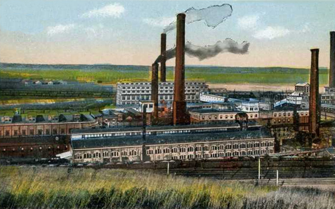 Solvay Process Works - Syracuse, New York - 1900